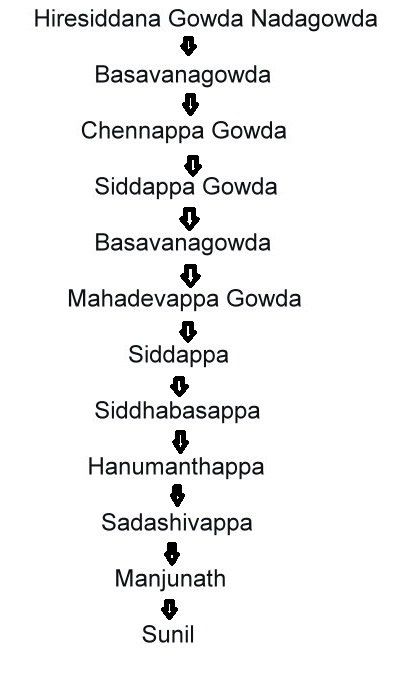 Patrilineal history of a Lingayat male for 12 generations worth over 275 years, depicted in descending order towards down.